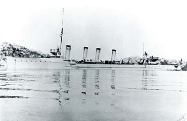 A photo of HNoMS Garm, a Draug class destroyer. Originally found [1], but origin unknown.